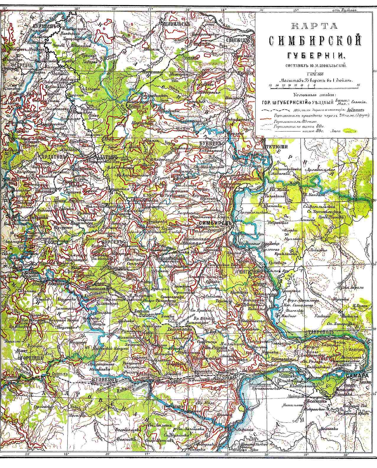 Simbirsk Guberniya Map (end of 19th century)